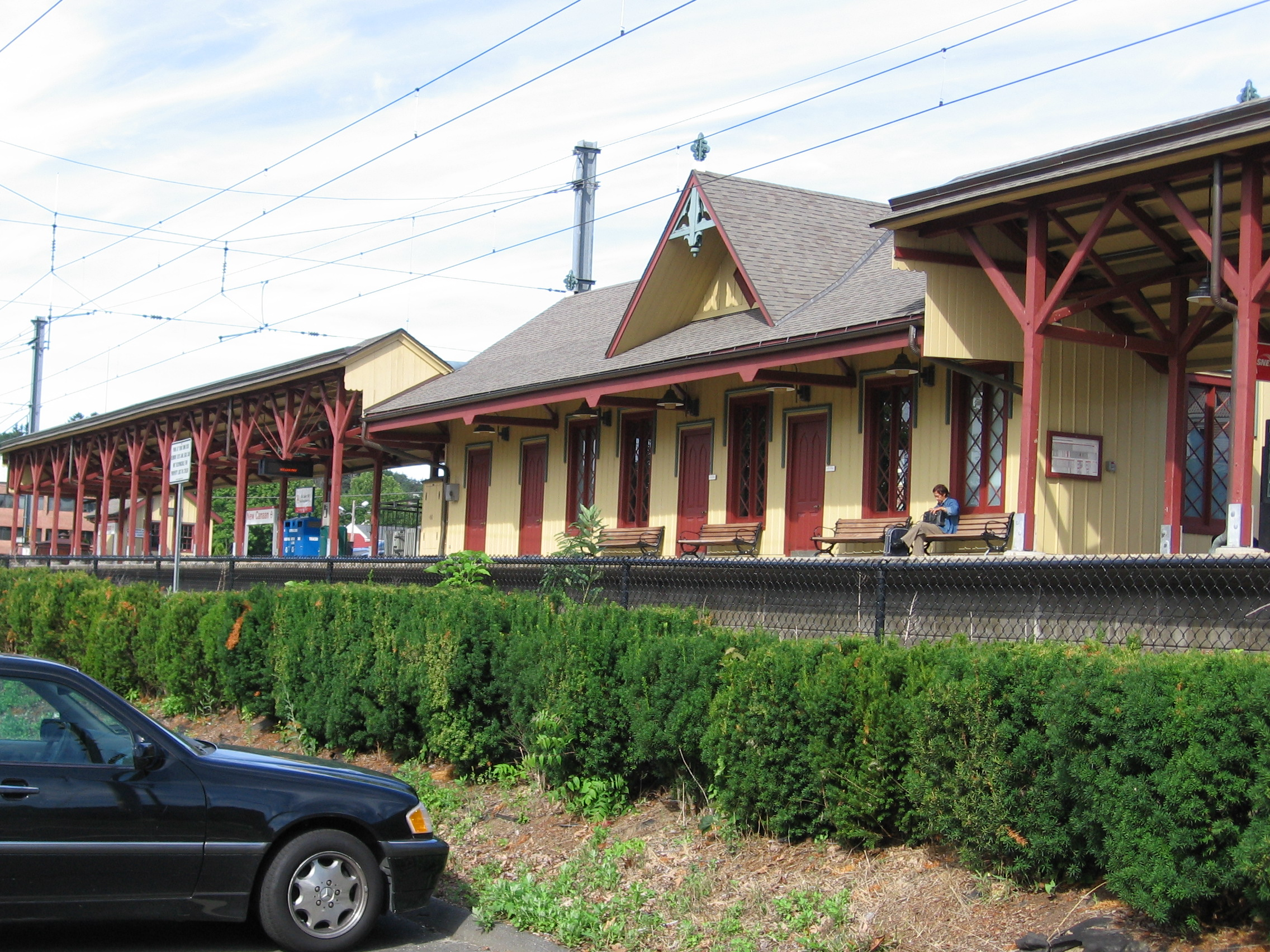 Track-side view, station building, New Canaan, New Canaan Photographed Sunday morning, July 22, 2007